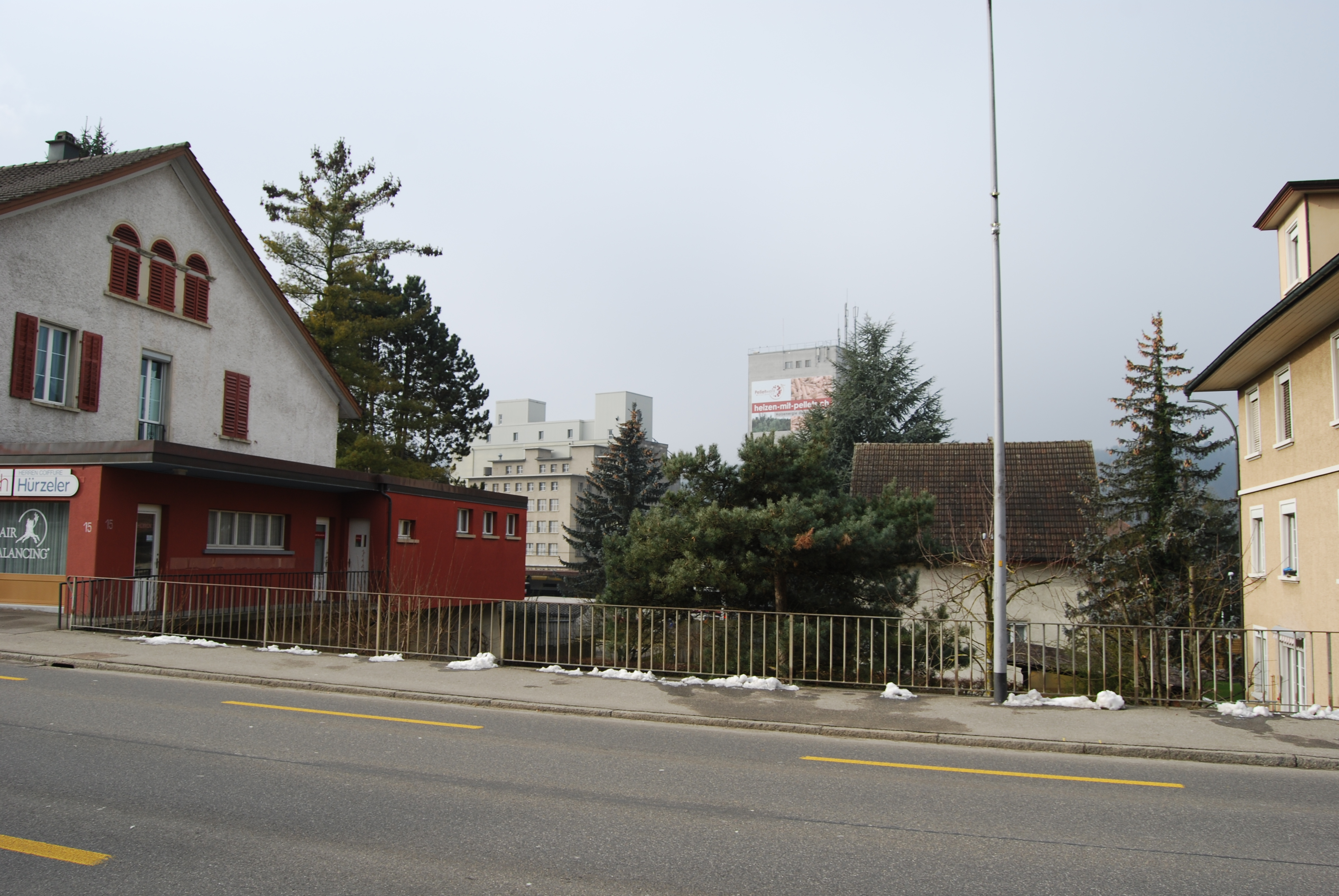 Suhre bridge at Schöftland, canton of Aargau, SwitzerlandEsperanto: Suhre-ponto en Schöftland, Kantono Argovio, Svislando